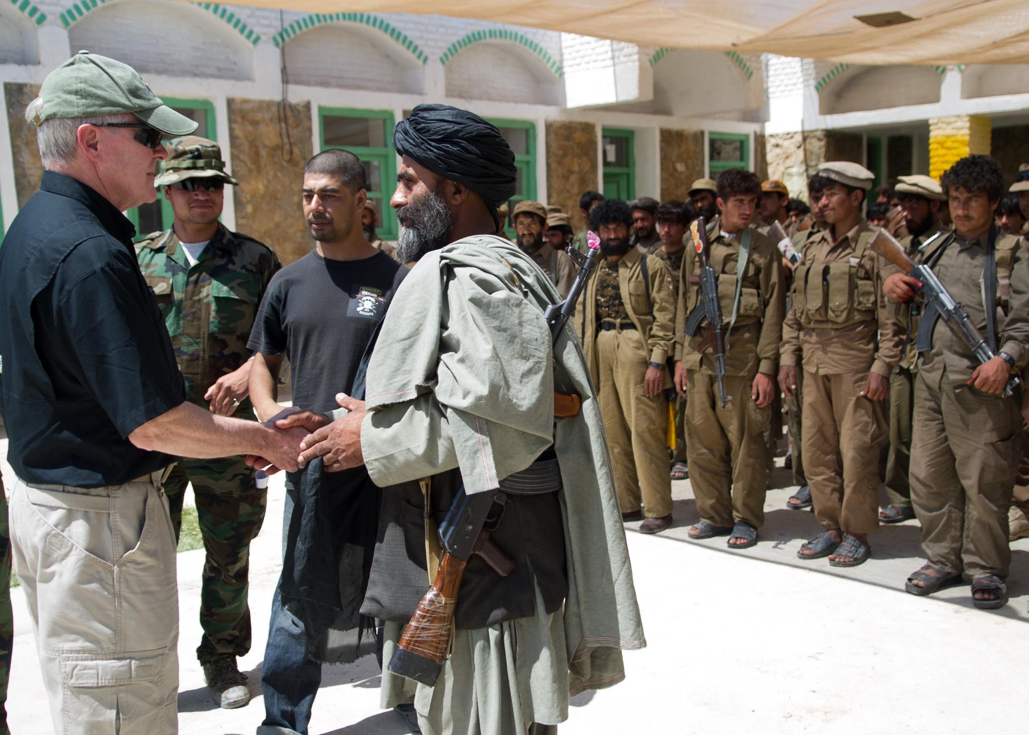 HELMAND PROVINCE, Afghanistan (April 24, 2012) Secretary of the Navy, the Honorable Ray Mabus, meets with Afghan Local Police Forces near Camp Bastion in Helmand Province, Afghanistan. While in Afghanistan, Mabus conducted battlefield circulations with Marine and Navy forces, received updates on progress from coalition and Afghan leaders, and thanked service members for their service and sacrifice. (U.S. Navy photo by Chief Mass Communication Specialist Sam Shavers/Released) 120424-N- AC887-011 Join the conversation navylive.dodlive.mil